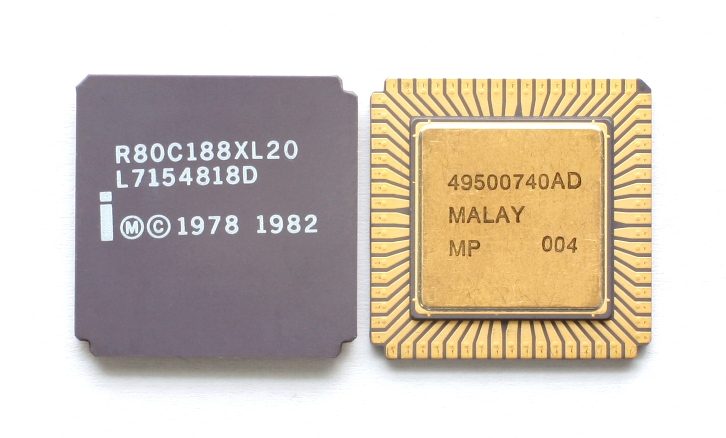 CPU Intel R80C188XL CLCC top and bottom view.